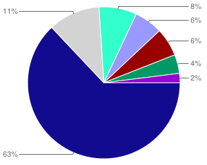 Pie chart that lists the award percentages by source for SRI International (currently, in 2010) Source: SRI overview Creation: I used the Google Chart Creator, and the resulting file is here: (hit edit, it's in an html comment)